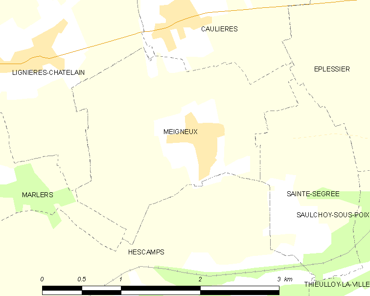 Map of French municipality Meigneux